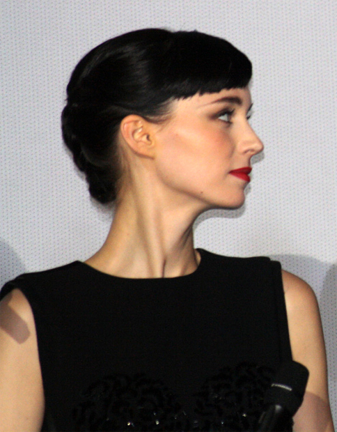 Rooney Mara at the Paris premiere of her film The Girl with the Dragon Tattoo